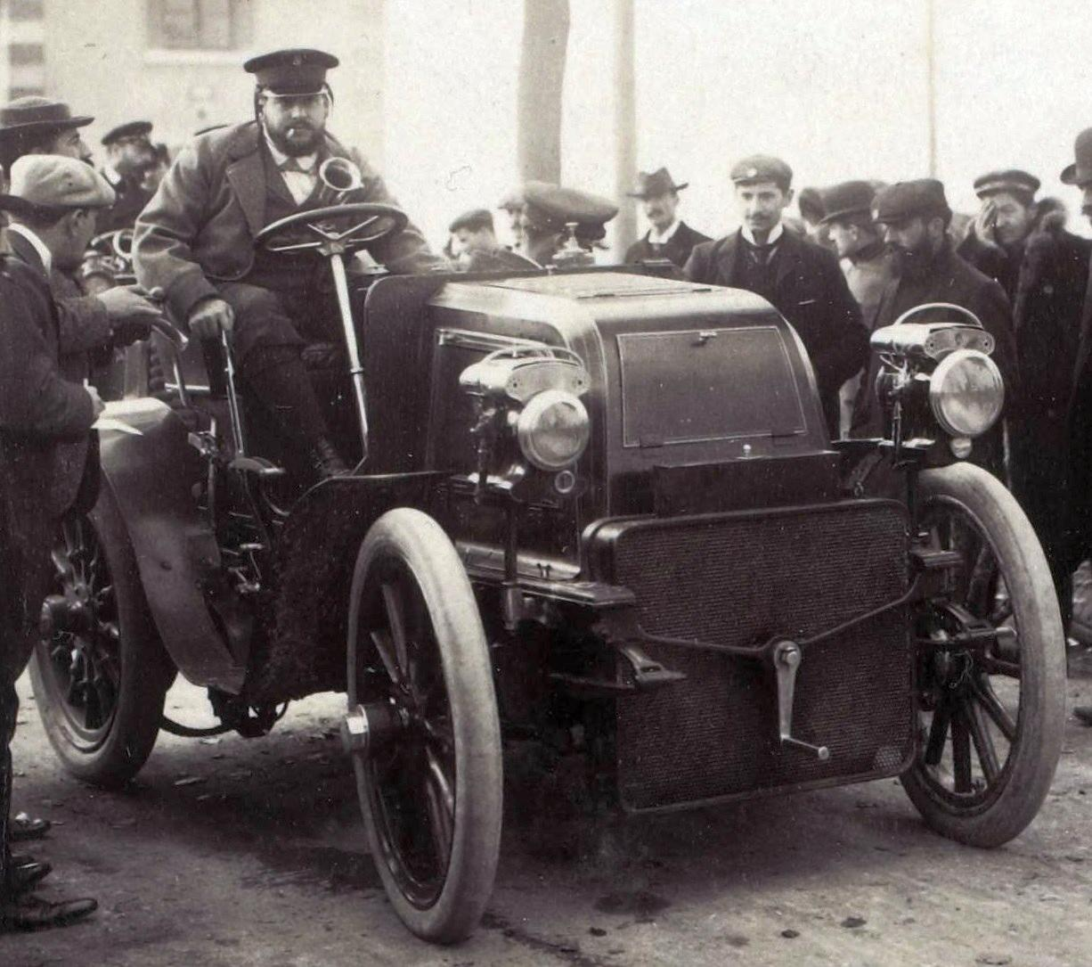 [Collection Jules Beau. Photographie sportive] : T. 12. Années 1899 et 1900 / Jules Beau : F. 32v. Concours de côte de Chanteloup, organisé par Le Vélo, 4 septembre 1900; 1900 British Daimler 24 HP; winner of the 3ième course de côte de Chanteloup and driven by. Not unusual at the time, de Rothschild enlisted under a Pseudonym, “Docteur Pascal”.